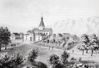 Austråttborgen (Manor of Austrått) in Ørland, Norway